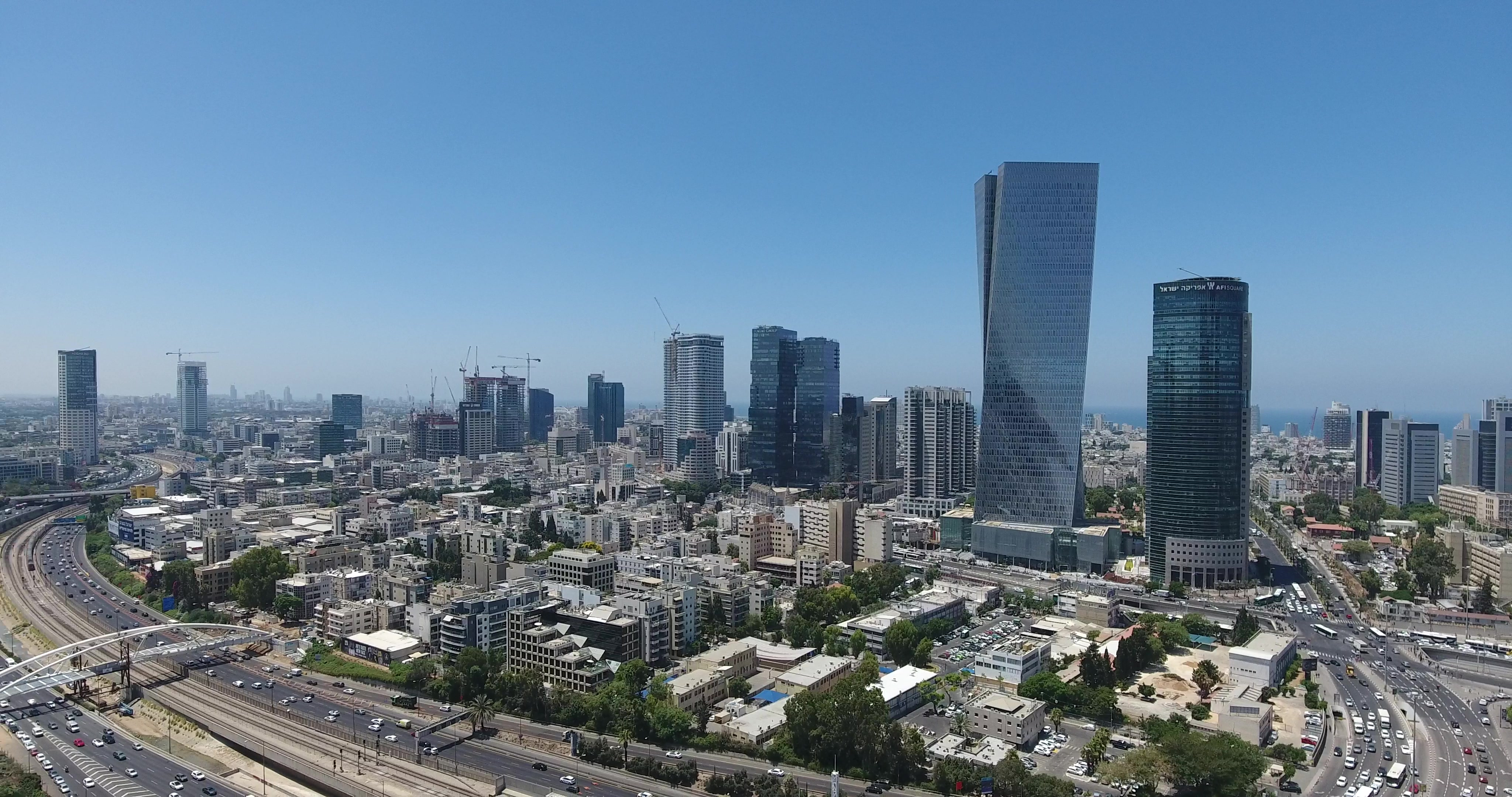 Montefiore neighborhood, Tel Aviv, july 2019